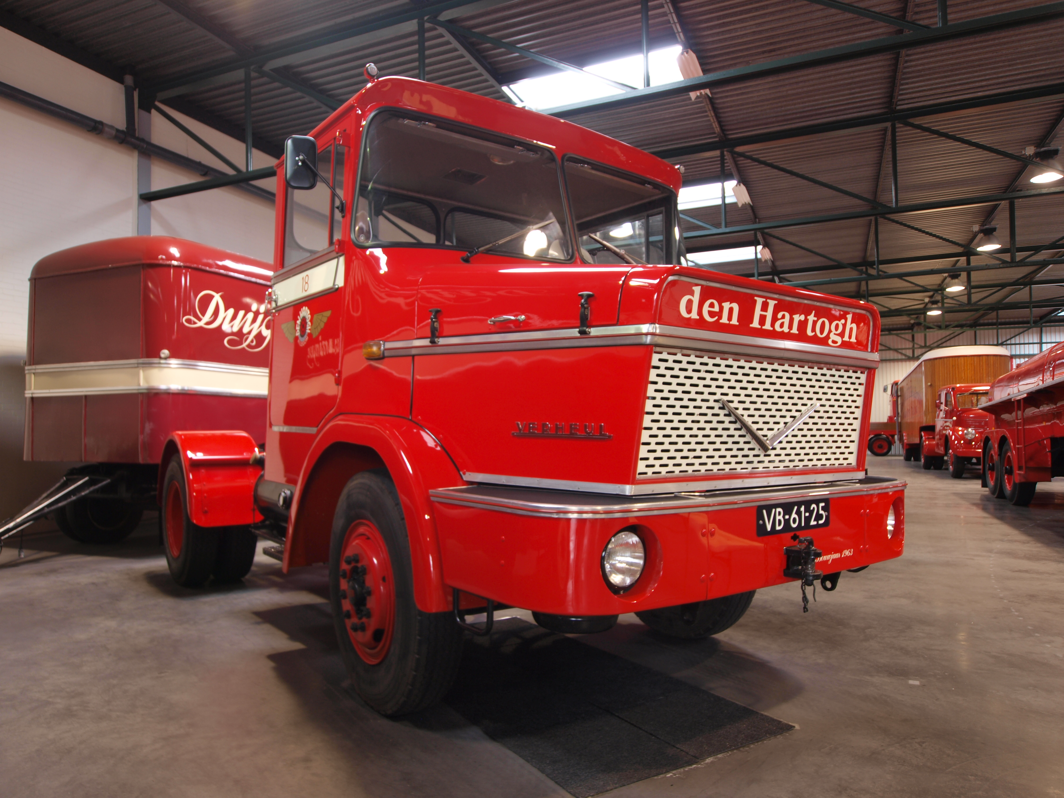 Photographed at the Hyacintenrit 2013 stop in the Jack den Hartogh oldtimer truck mueseum.